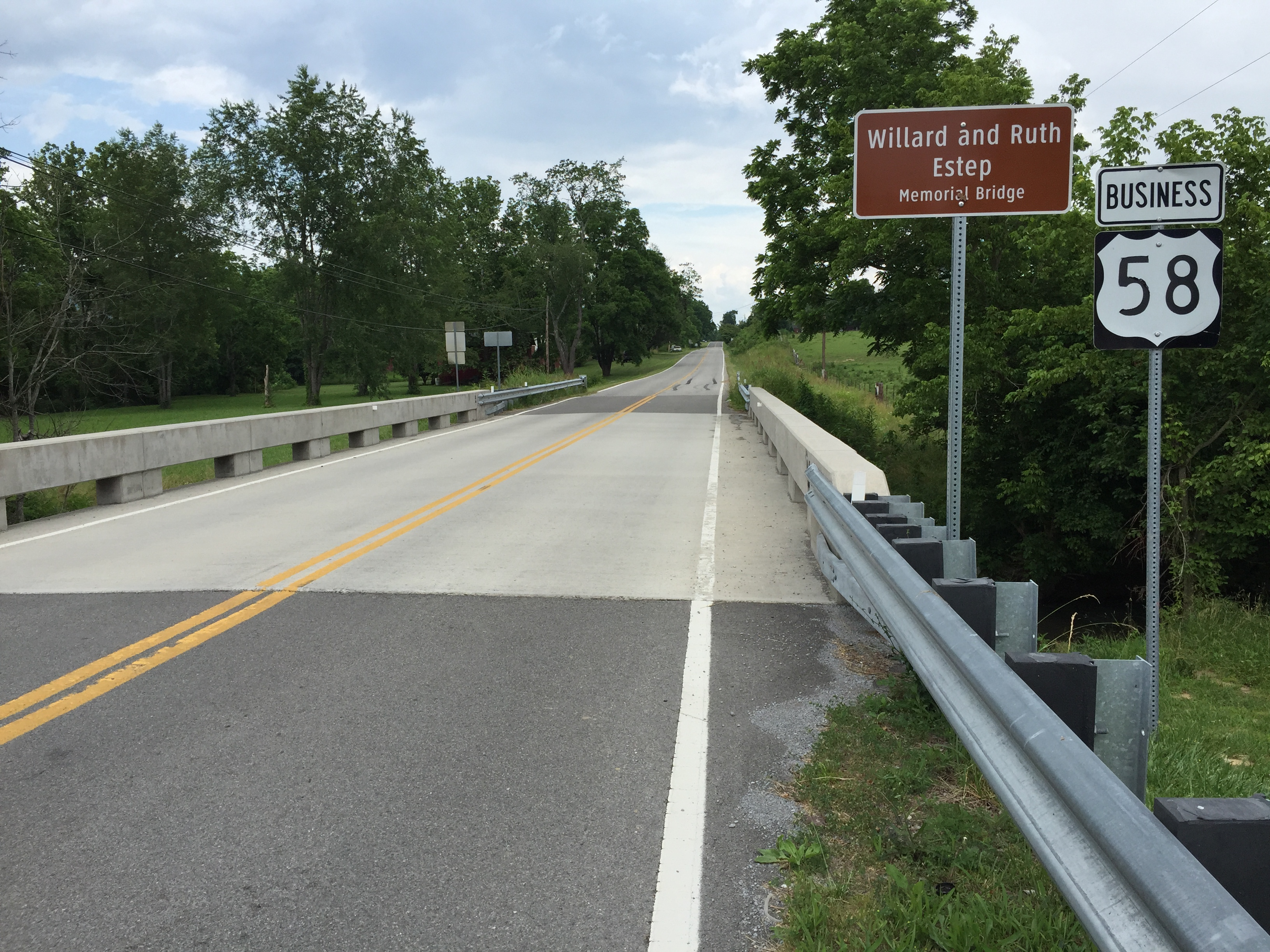 View east along U.S. Route 58 Business (Dr. Thomas Walker Road) at U.S. Route 58 (Wilderness Road) in Cowan Mill, Lee County, Virginia